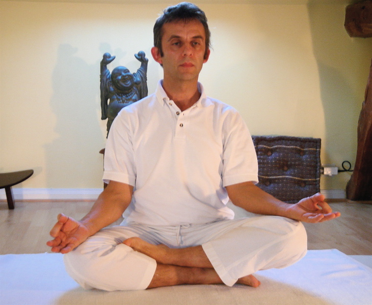 A man demonstrating the yoga posture siddhasana or perhaps sukhasana; see talk page for discussion.